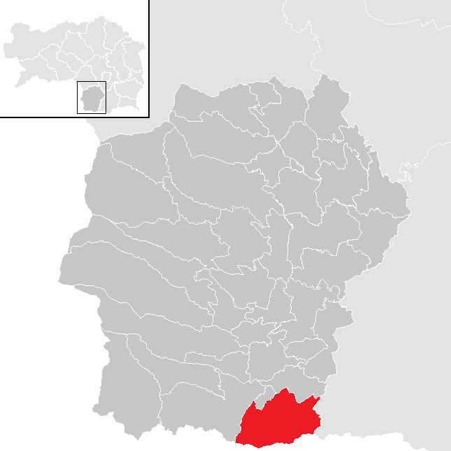 District Deutschlandsberg, Styria, Austria